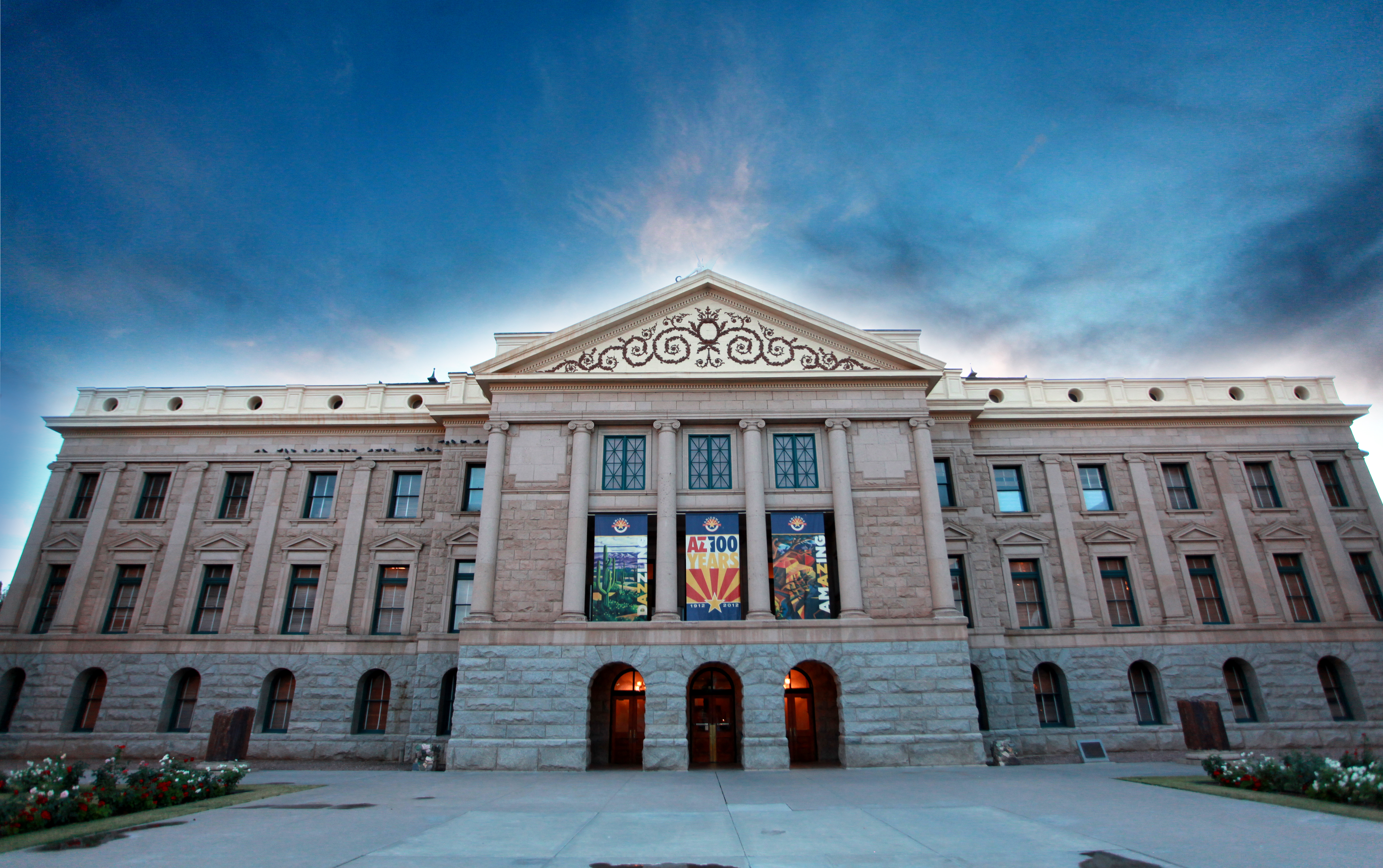 The Arizona Capitol Museum building in Phoenix, ArizonaMay 23, 2014